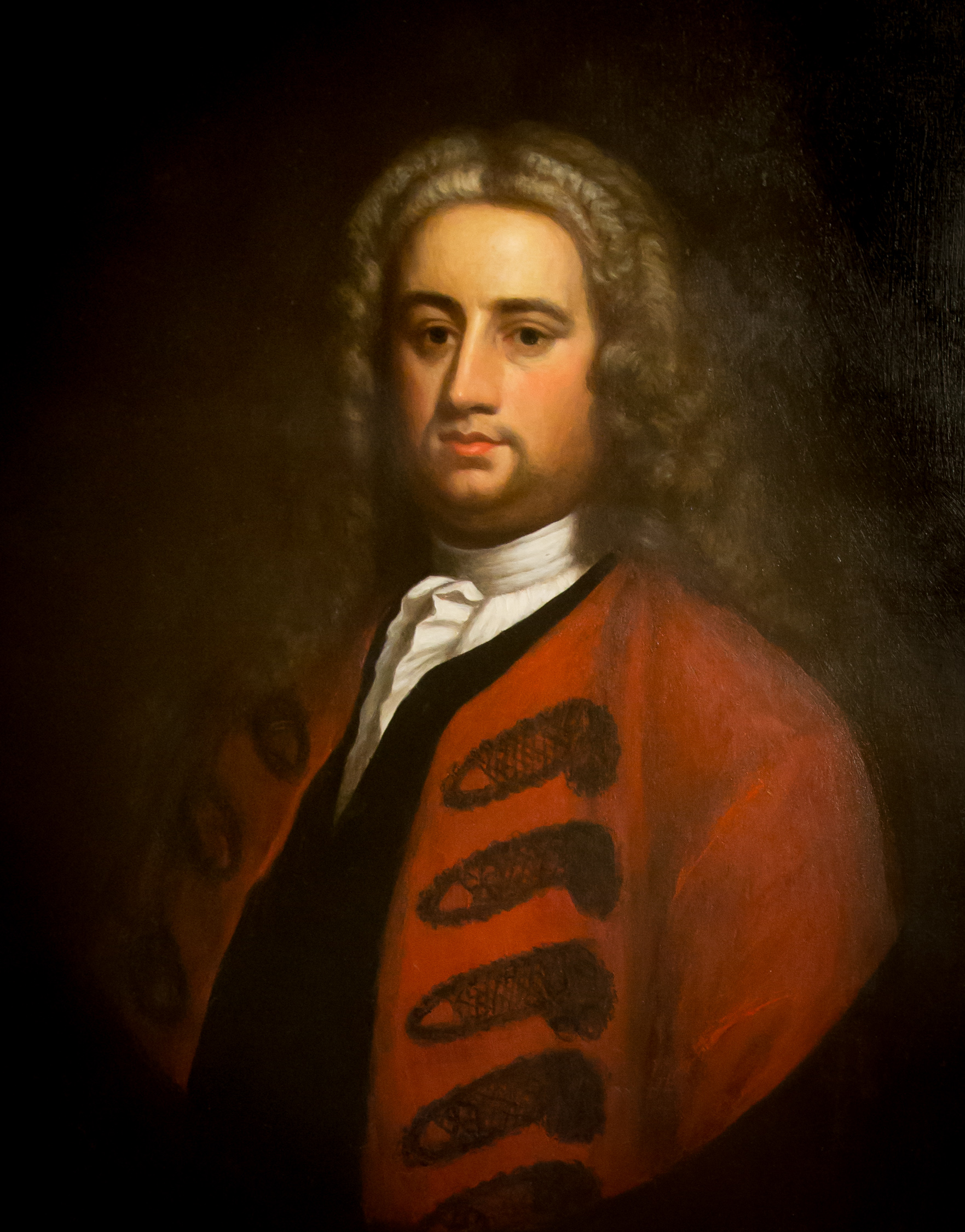 RI colonial Governor Joseph Wanton. Official portrait in the Rhode Island State House.